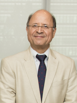 Gert Rosenthal, Chair of the Advisory Group of Experts; Gillian Bird; Cho Tae-Yul; Youssef Mahmoud, International Peace Institute; Michele Griffin, UN EOSG; Diane Corner, Deputy SRSG for MINUSCA